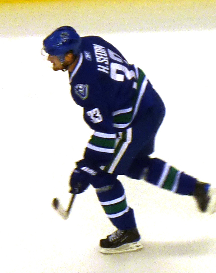 Vancouver Canucks centre Henrik Sedin during a game against the Anaheim Ducks on December 16, 2009.